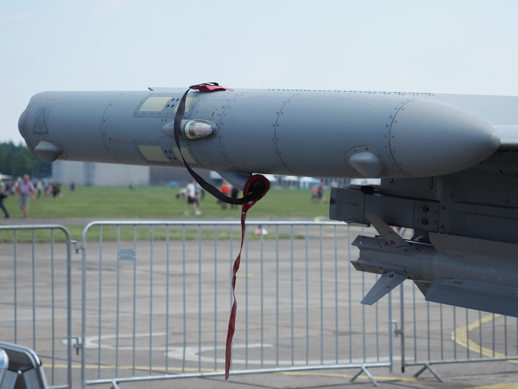 EuroDASS pod mounted on right wing of German Luftwaffe Eurofighter Typhoon registration 31+18, on German Armed Forces Day, Fassberg 2019